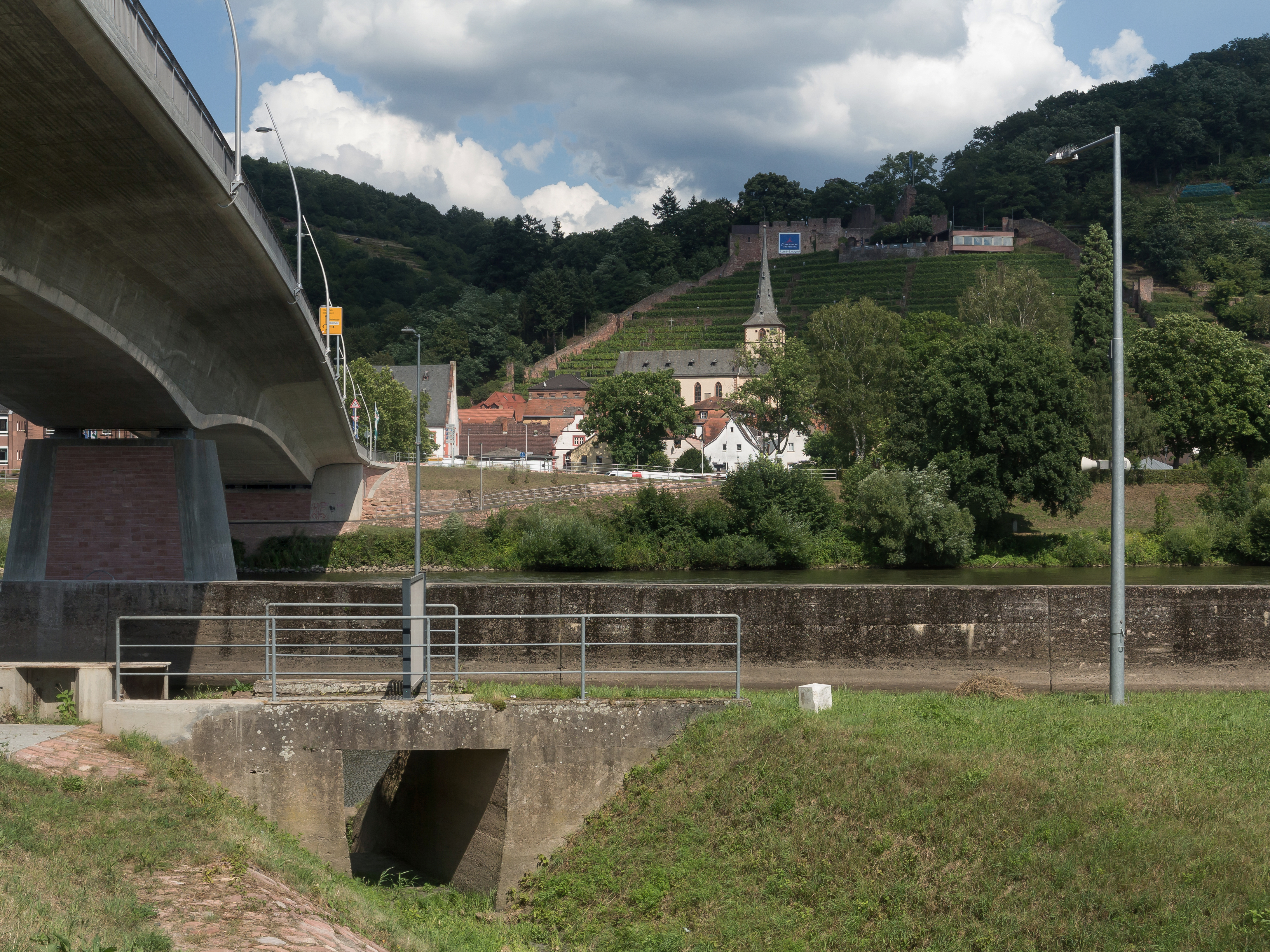 Klingenberg am Main, view to the town with church (die katholische Pfarrkirche Sankt Pankratius)This is a photograph of an architectural monument.